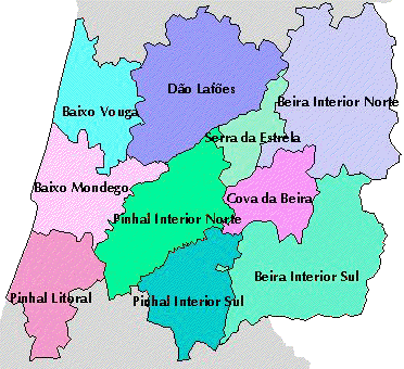 Sistema Nacional de Informação Geográfica - Instituto Geográfico Português - Homepages: - link